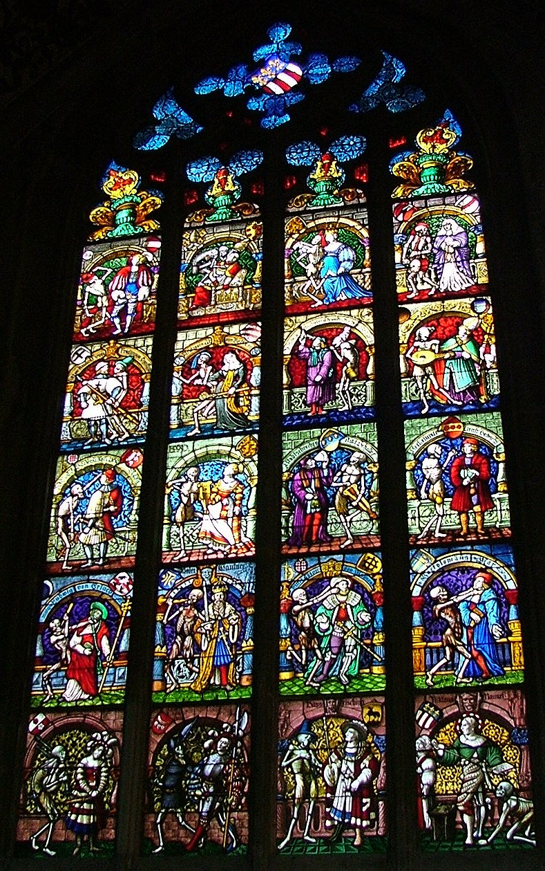 Stained Glass window from Berne Muenster (Cathedral). This series of images represent death claiming people from all walks of life. These images were very common during the Black Death in Europe.